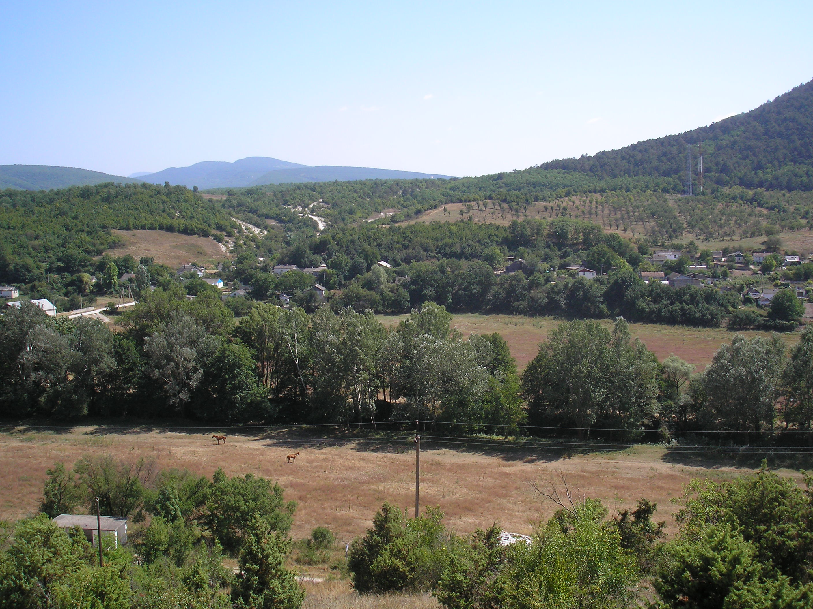 Village Bashtanovka, Bakhchisaray district, Crimea